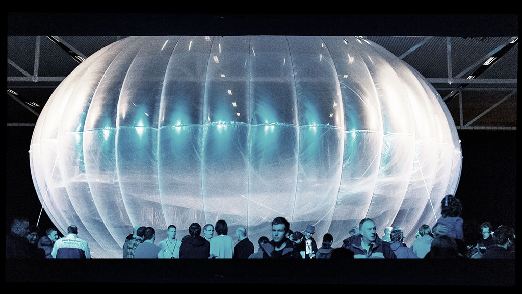 Misc photos from the Christchurch launch event for the Google Loon Project of June 13, 2013